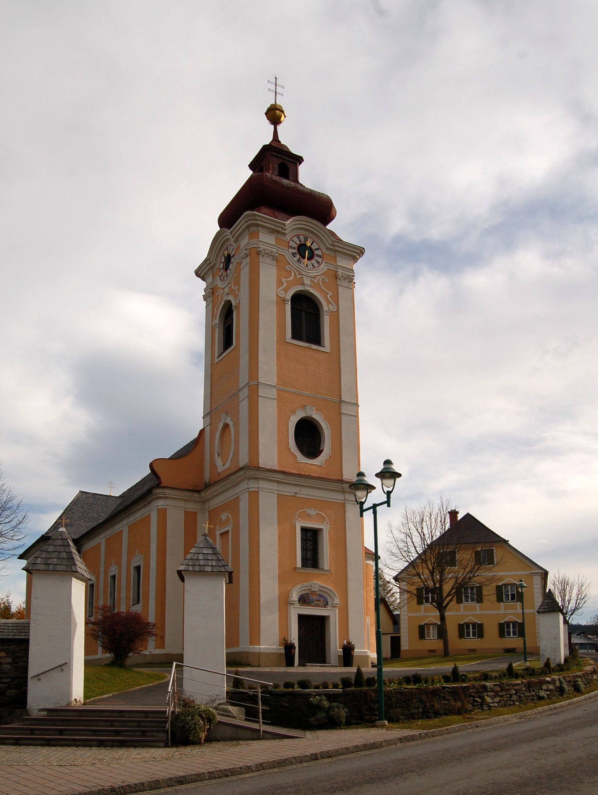 The parish church hl Ägydius in Fischbach, Styria, is protected as a cultural heritage monument.